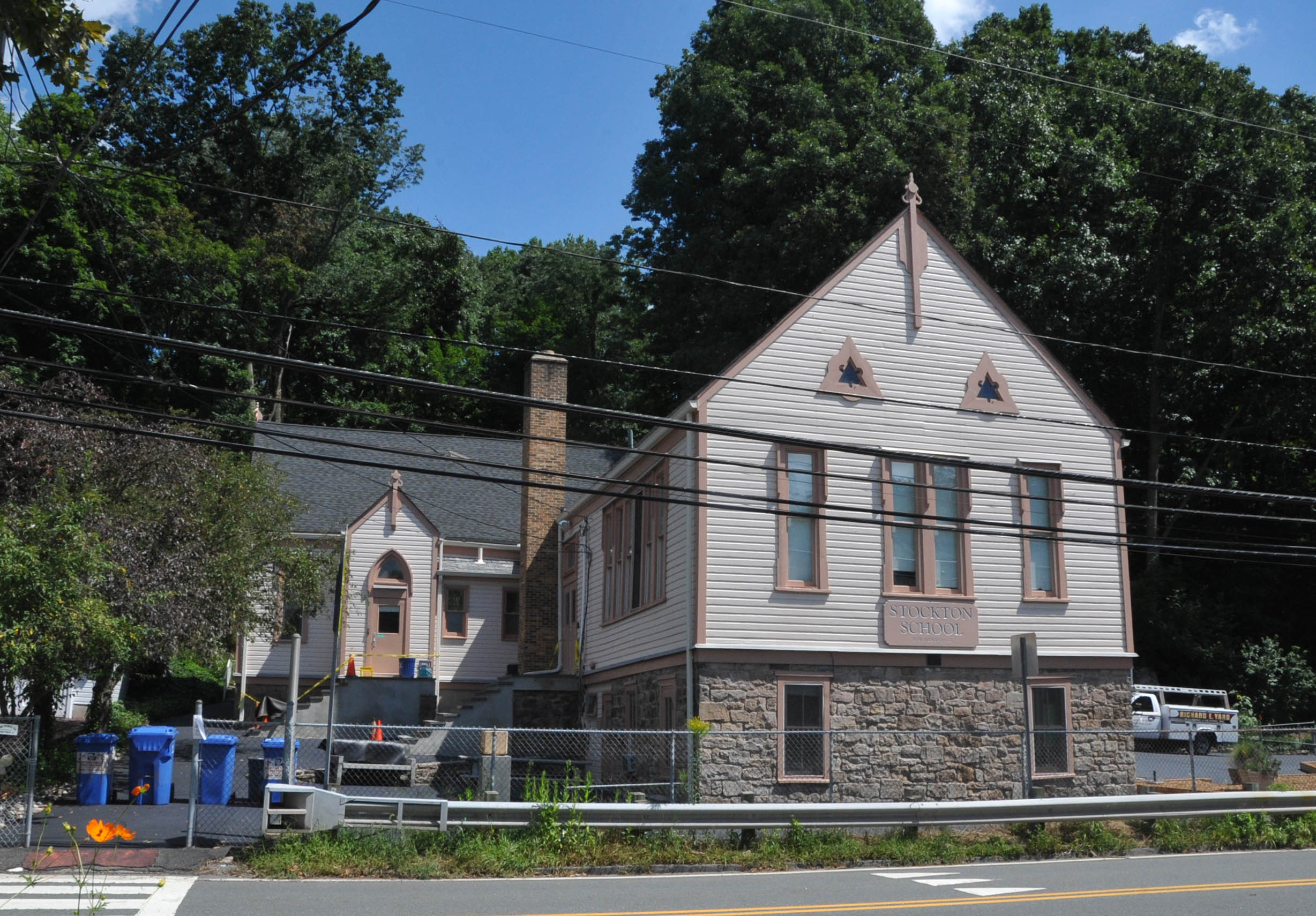 Also known as Stockton School; built in 1872 and enlarged in 1884; oldest & smallest N.J. public schoolhouse still in use